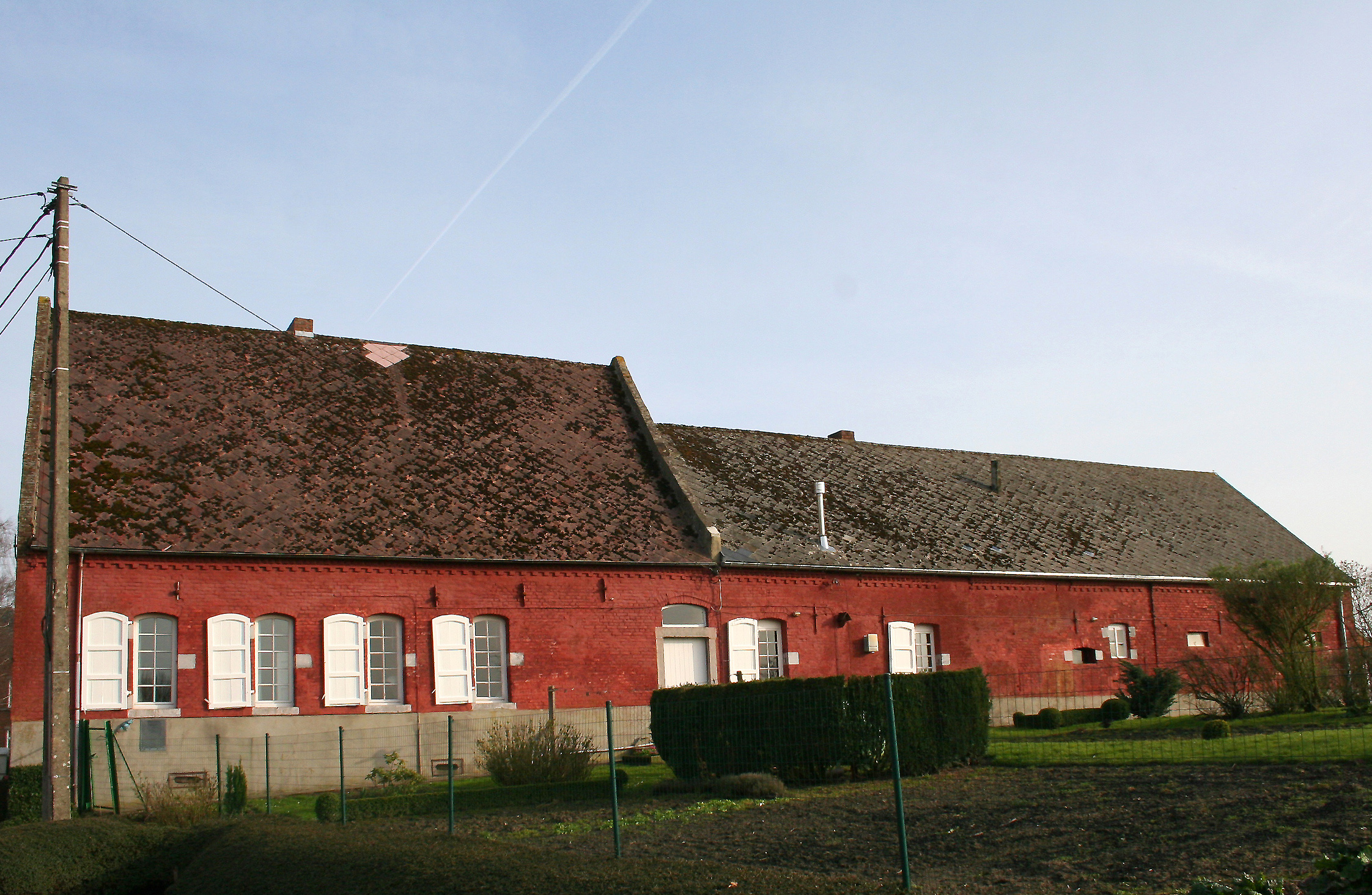 Fouleng (Belgium), rue de l’église - Ancient farm.